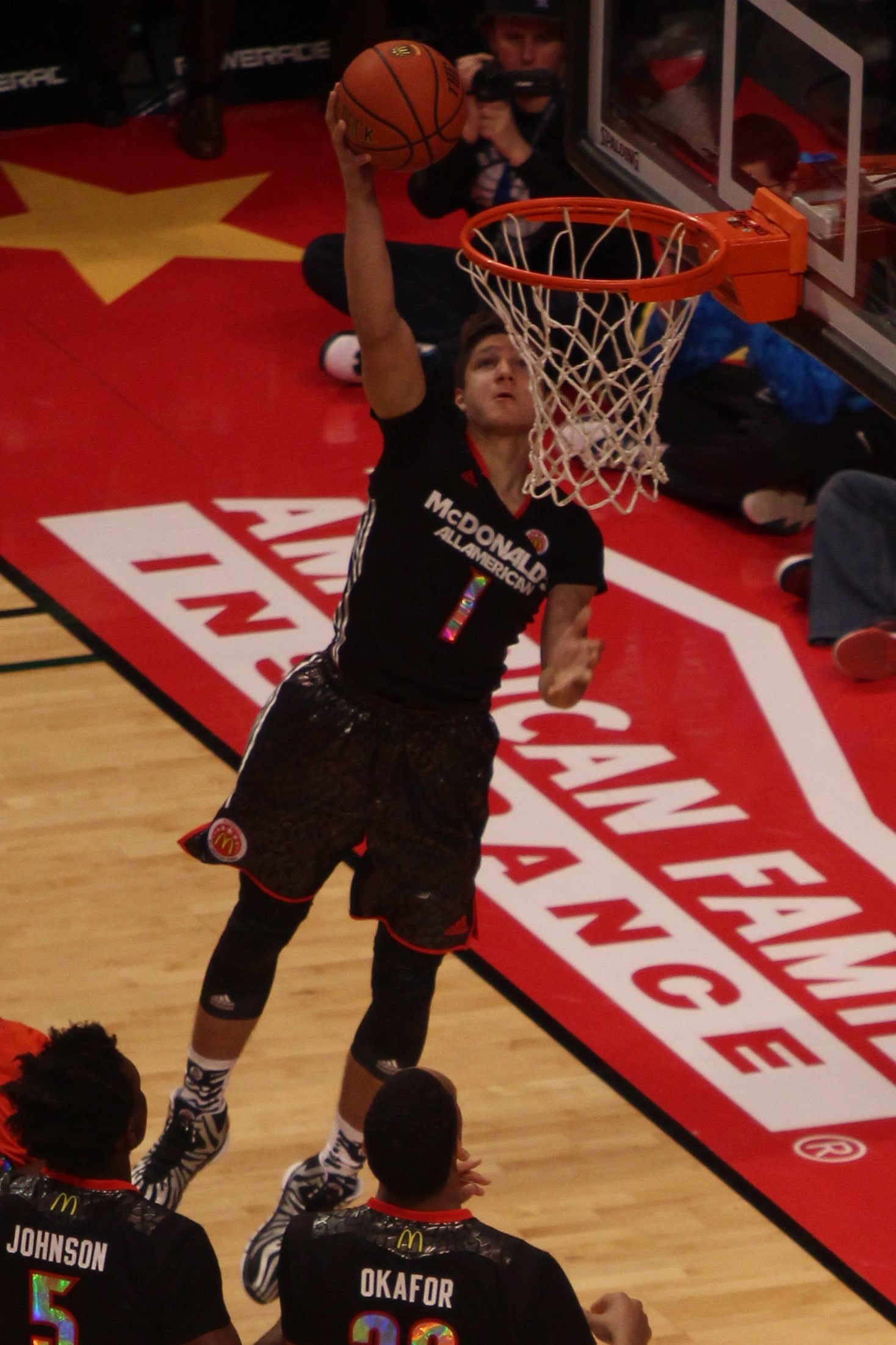 Grayson Allen dunking in the w:2014 McDonald's All-American Boys Game